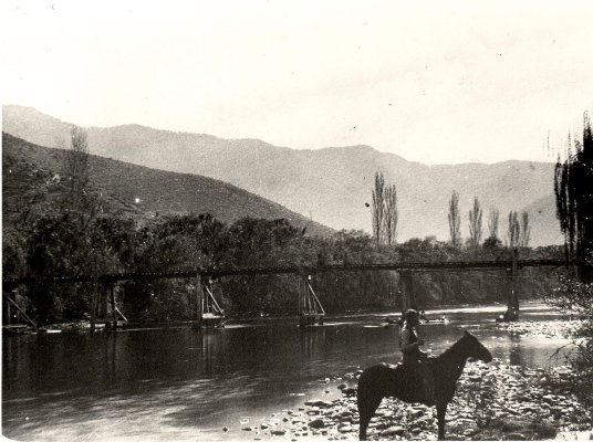 Brownlee Photographs. Looking downstream to Brownlee's bridge over the Pelorus River on the site of the present Dalton's bridge. There is a man on a horse in the foreground. Copied 1961 from Dalton Estate